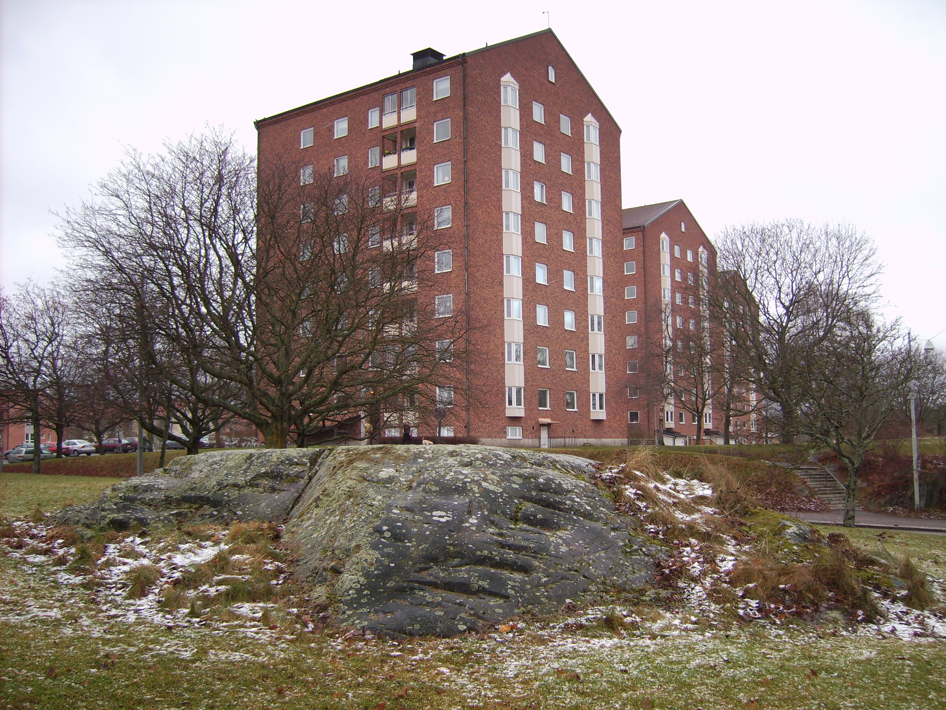 The rock carving sites of Norrköping are concentrated to the area around the river Motala ström (2 x 5 km), which was suitable for settlement during the Bronze Age (c 1800-500 BC), The pictures (more than 7300) are dominated by cup marks (c 4000) and ships, but the visitor also will discover humans, animals, weapons and sun symbols.